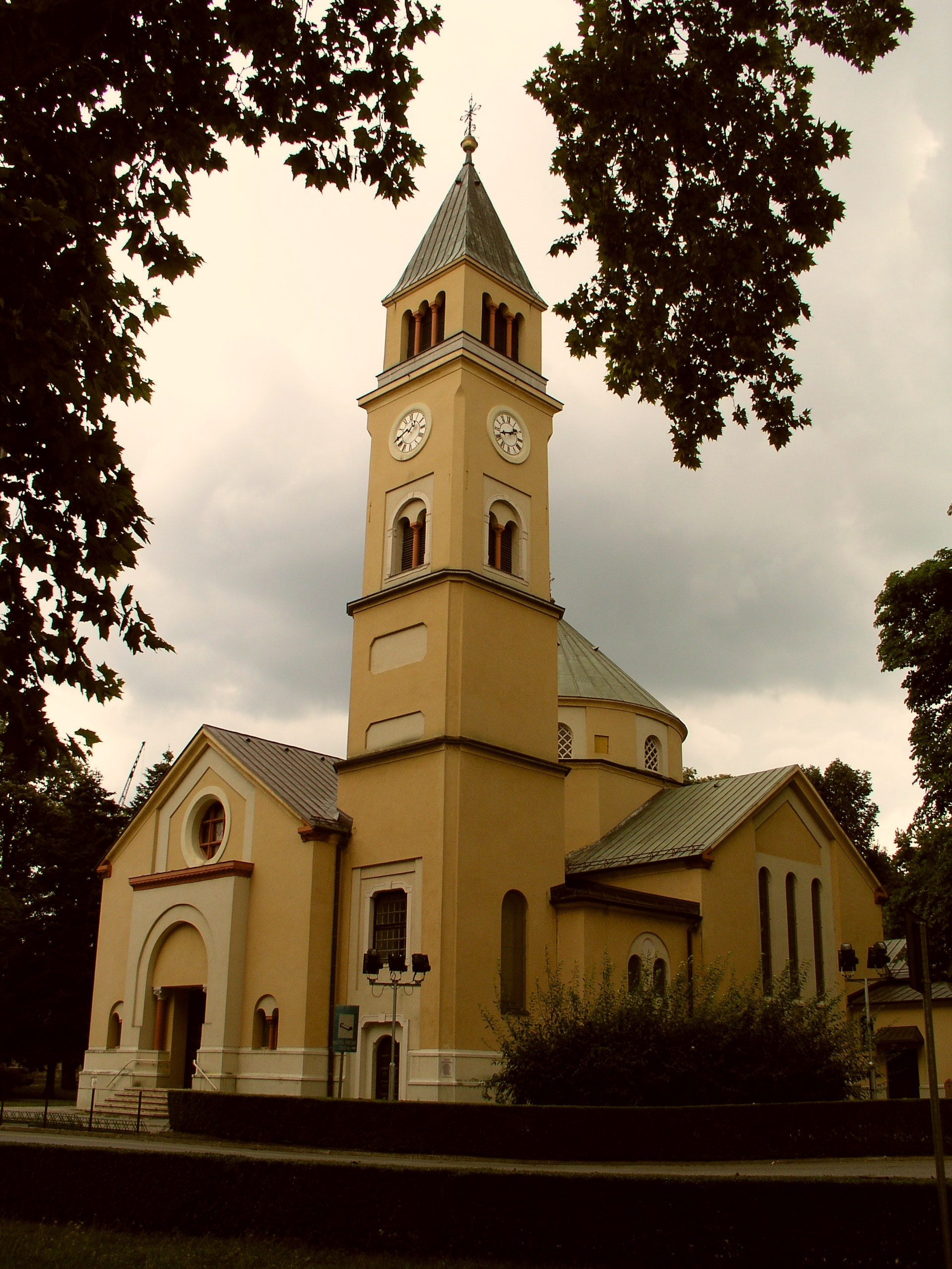 Church of St. George in Đurđevac (Croatia)